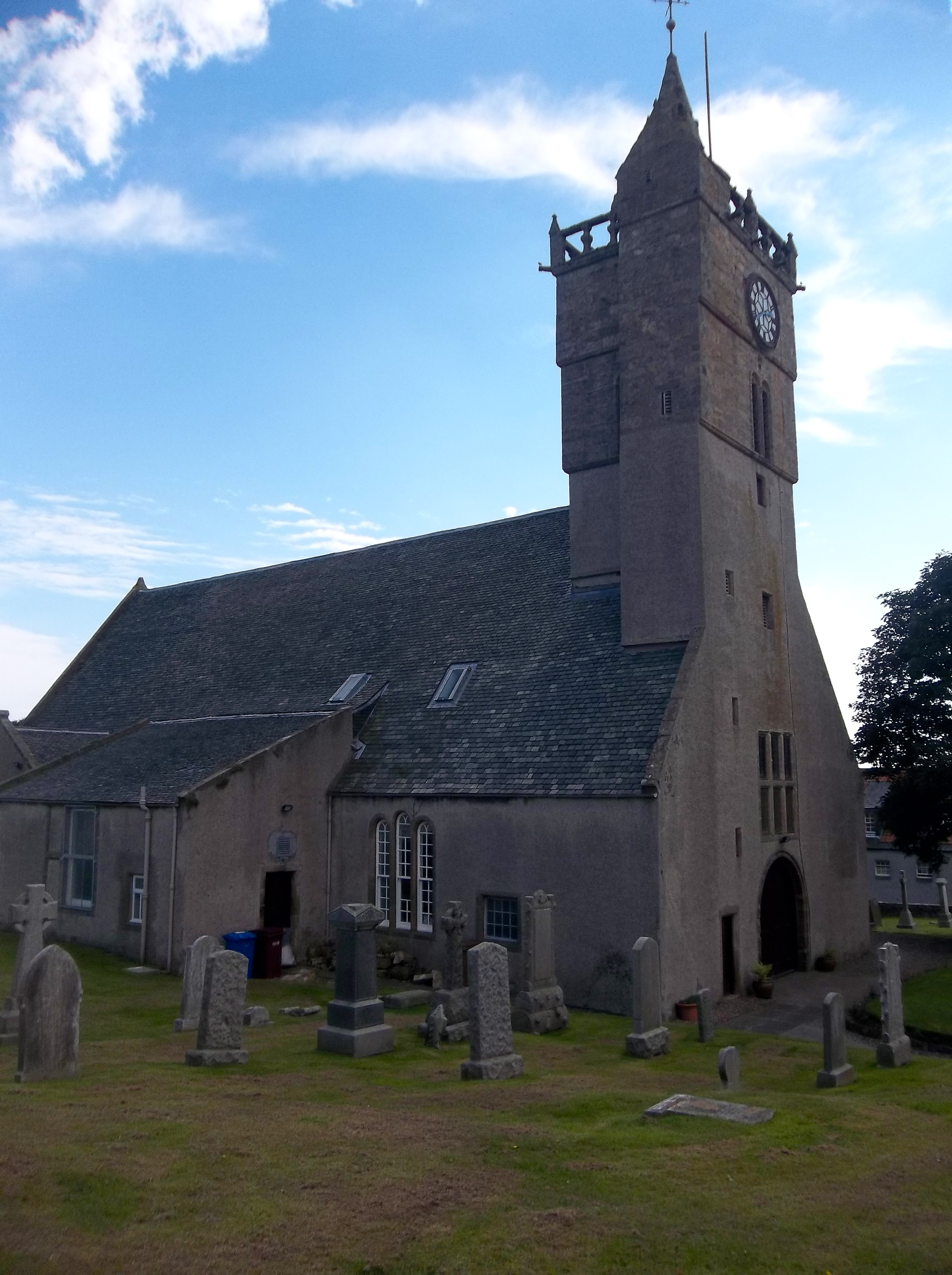 Anstruther Easter Parish Church (St Adrian's)